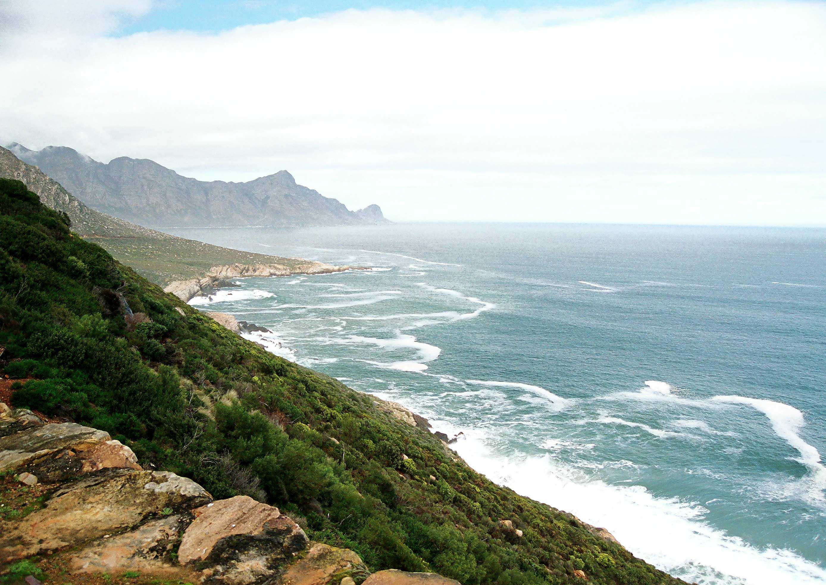 Seaview from the Garden Route, South Africa, near Hermanus